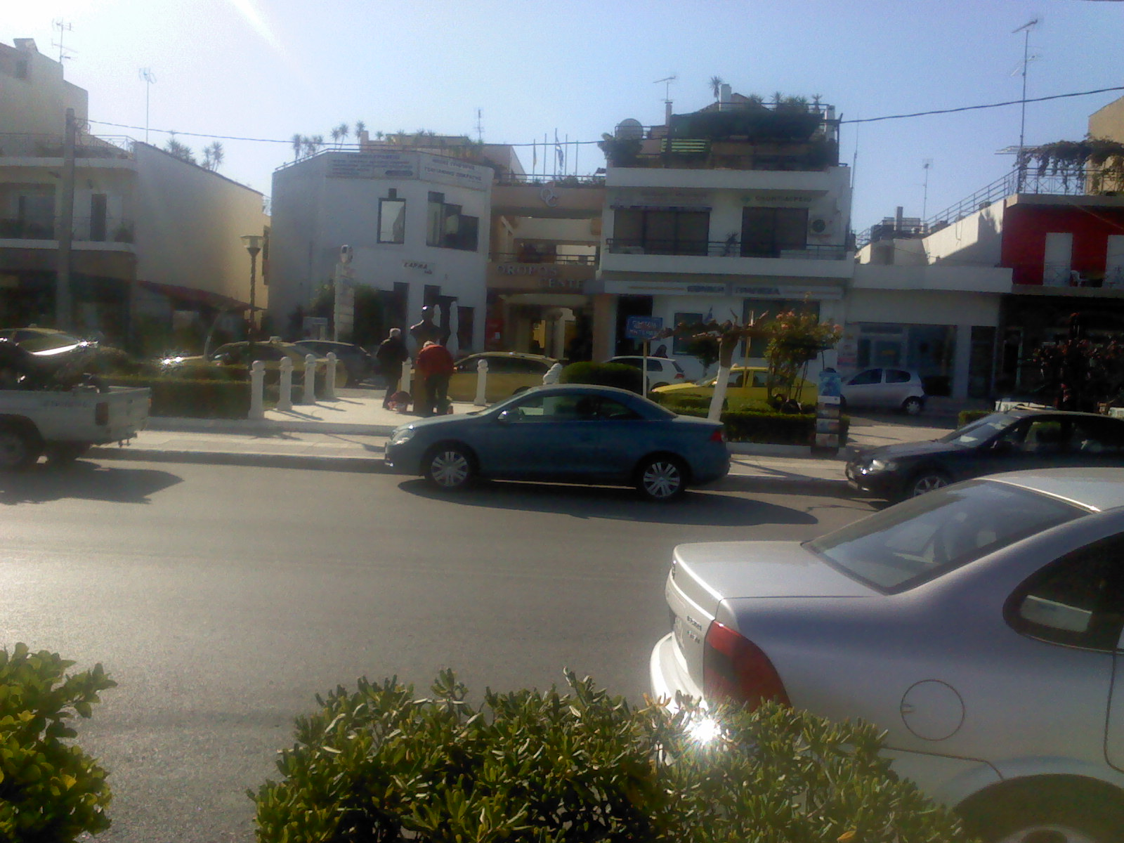 Square Mitera Skala Oropou